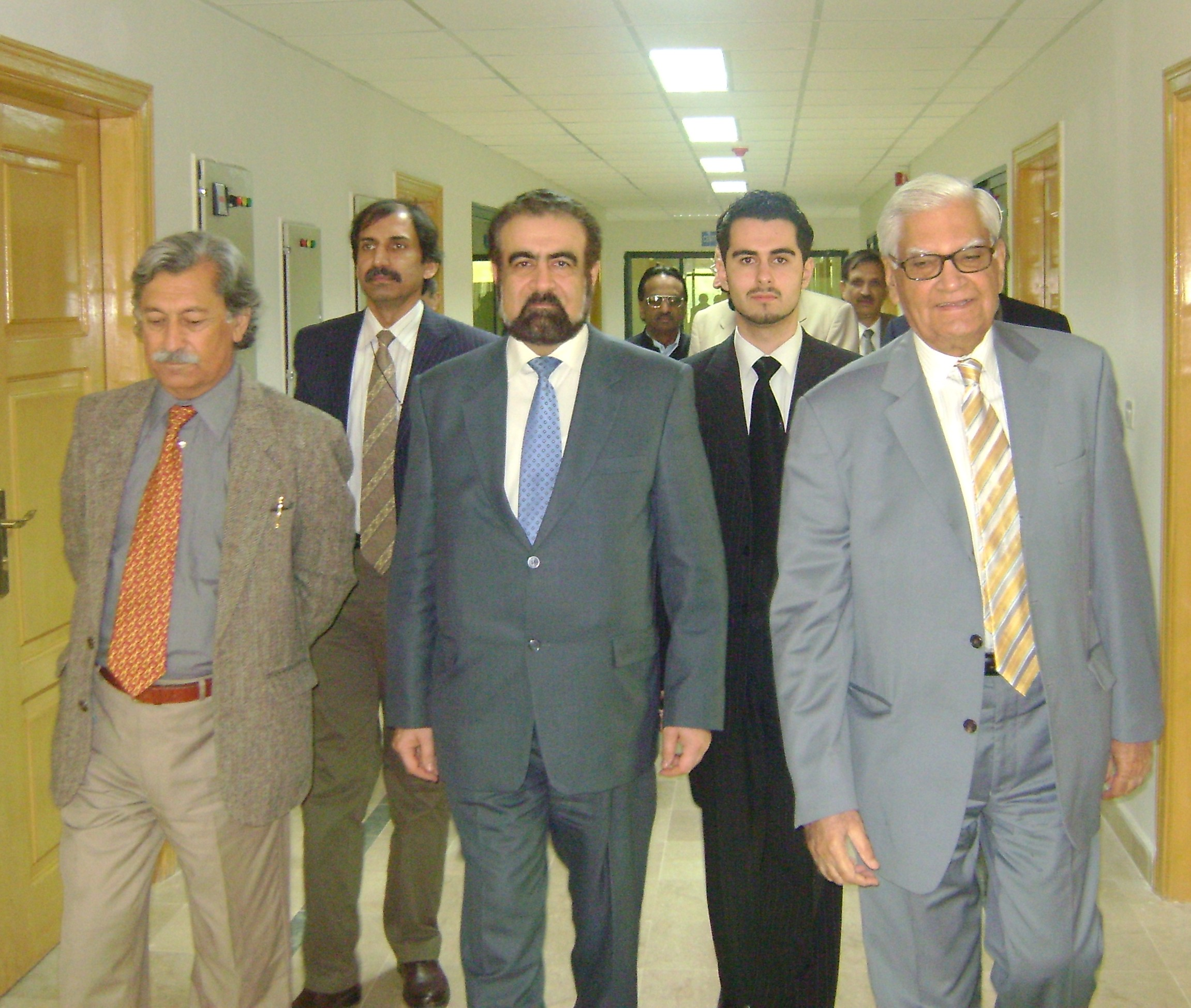 During the ceremony of opening of station ATROPATENA-Pk: From right to left: Dr. Ishfag Ahmad – State Adviser of Planning Committee of Pakistan in status of Federal Minister, President of Pakistan Academy of Sciences; Prof. Dr. Elchin Khalilov – Vice-President of International Academy of Science H&E (Austria), General Director of Scientific Institute of Earthquakes Prognosis (Azerbaijan), Director of Global Network for the Forecasting of Earthquakes; Prof. Dr. M.Qasim Jan – Secretary General of Pakistan Academy of Sciences, Rector of Quaid-i-Azam University (Islamabad), Pakistan, February, 2009.